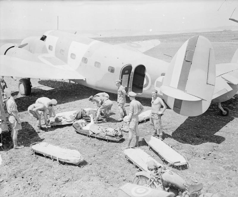 Royal Air Force- Italy, the Balkans and South-east Europe, 1942-1945. Army casualties on stretchers wait to be loaded into Lockheed Lodestar, 1371, an ambulance aircraft of the SAAF, at Catania, Sicily, for evacuation to hospitals in North Africa.